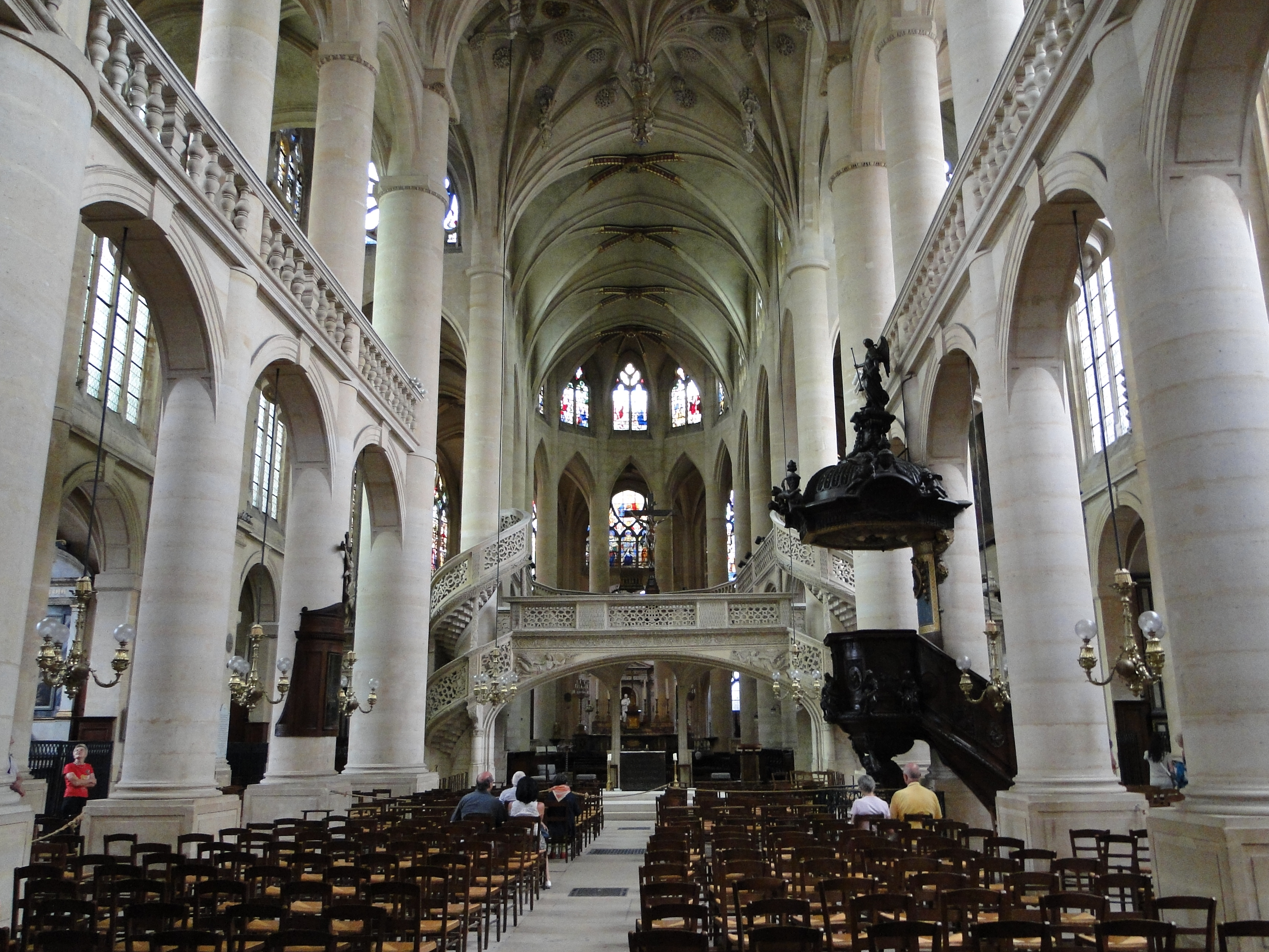 Church of Saint-Etienne-du-Mont in Paris - Interior